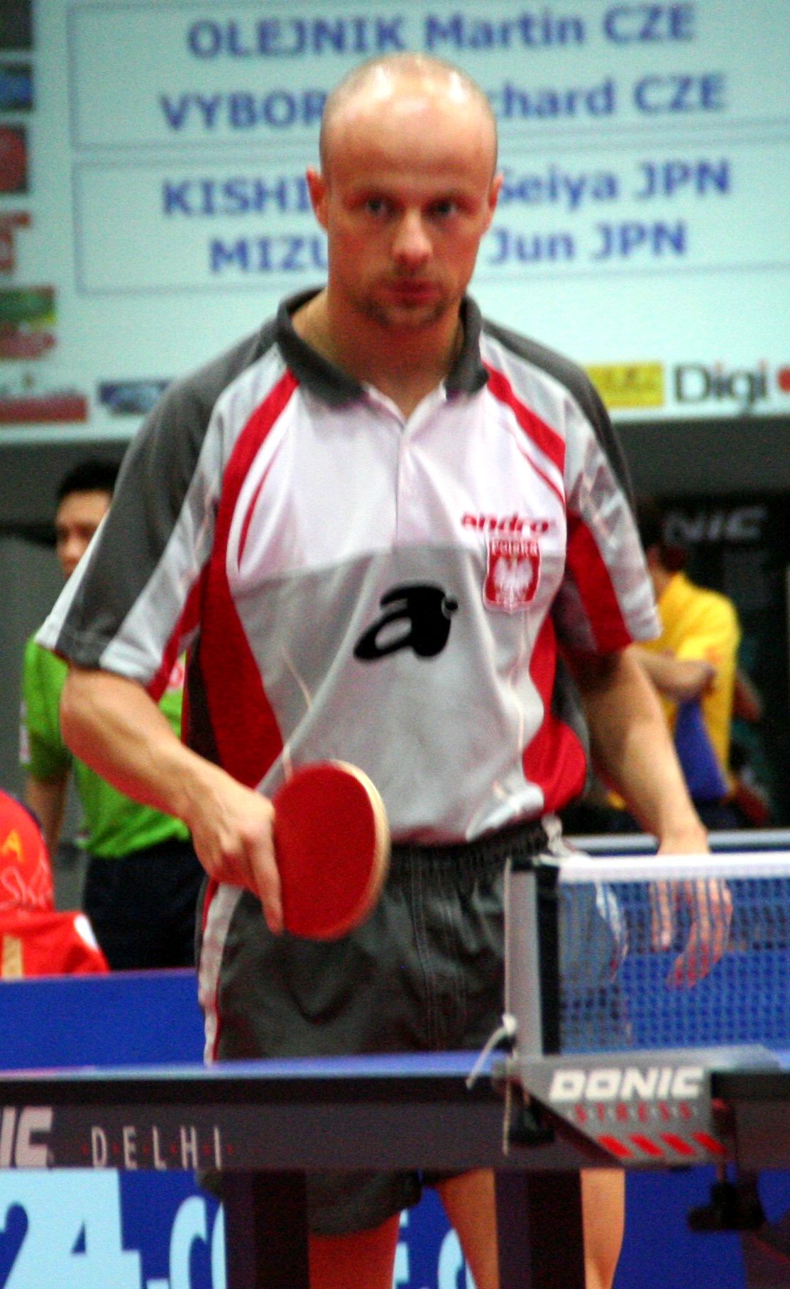 Lucjan Błaszczyk - polski tenisista stołowy